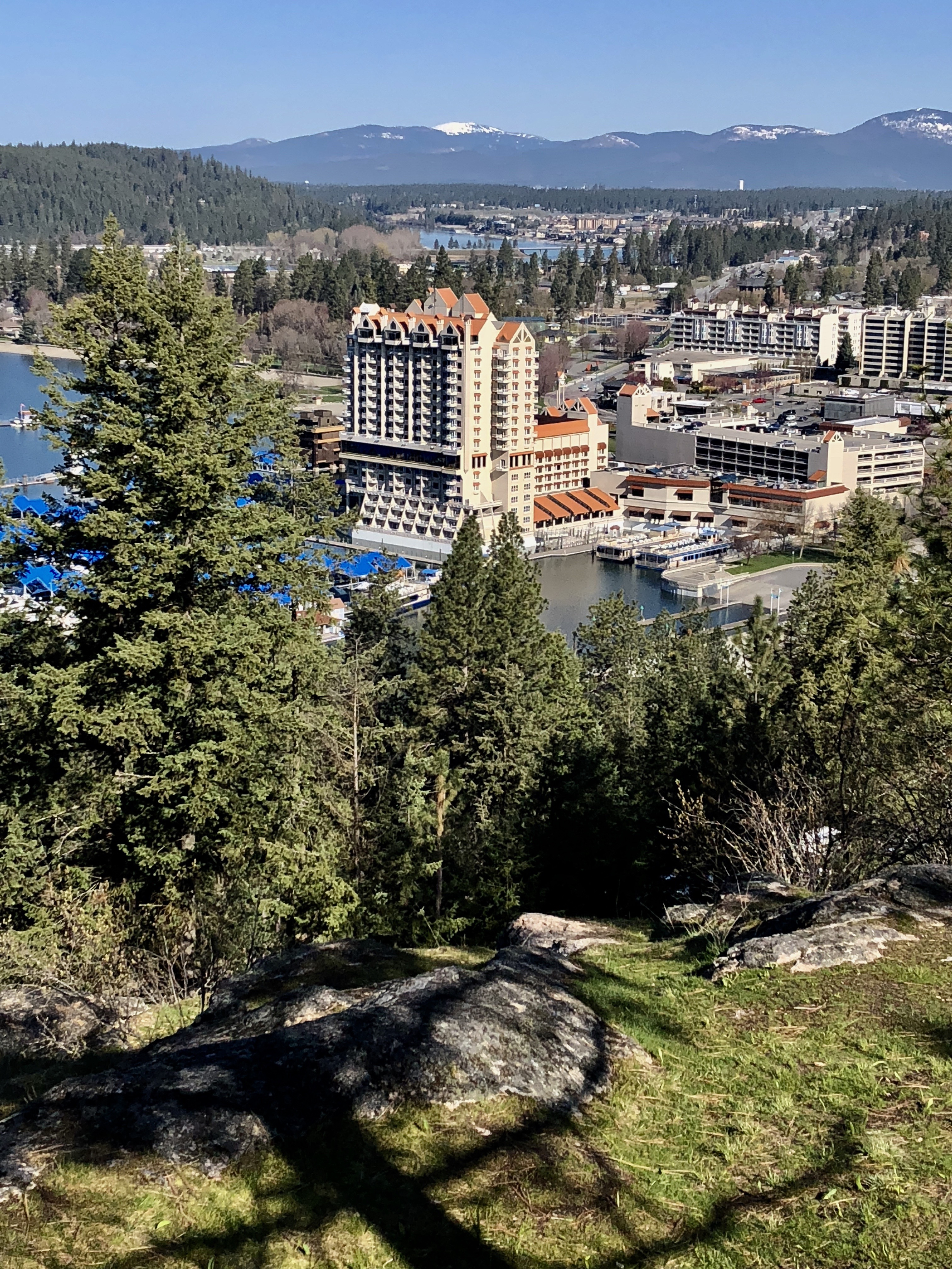 Coeur d'Alene Resort from Tubbs Hill